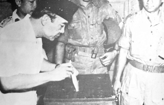 President Sukarno voting in the 1955 Indonesian legislative election